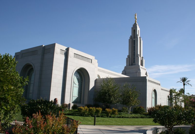 Picture of the Redlands California Temple of The Church of Jesus Christ of Latter-day Saints, taken 4 Nov 2006, by Brian Davis.